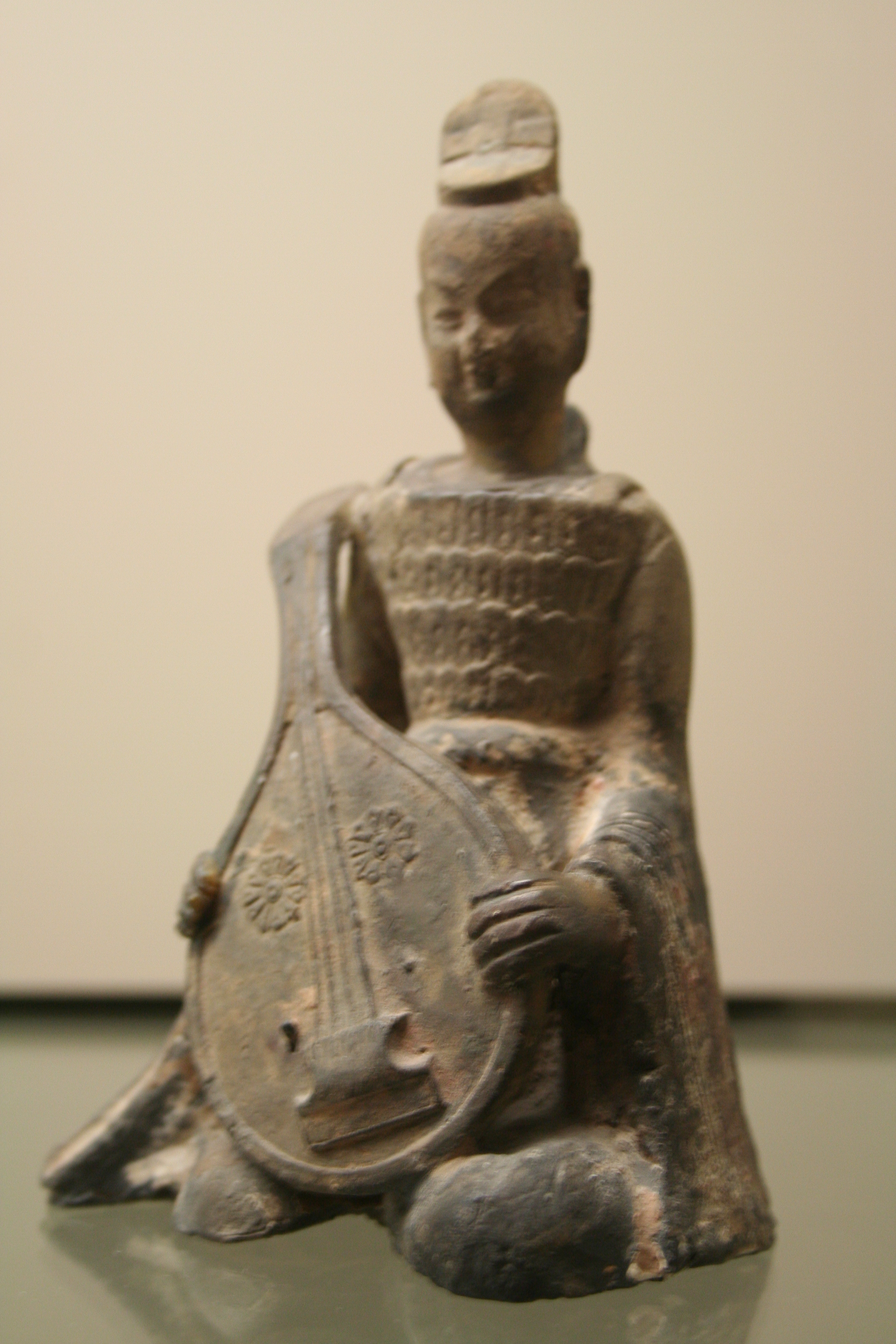 Pipa Player (Tan pipa non yong). Terra Cotta. Sui Dynasty (581 – 618) of China. Cernuschi Museum, Paris, France.